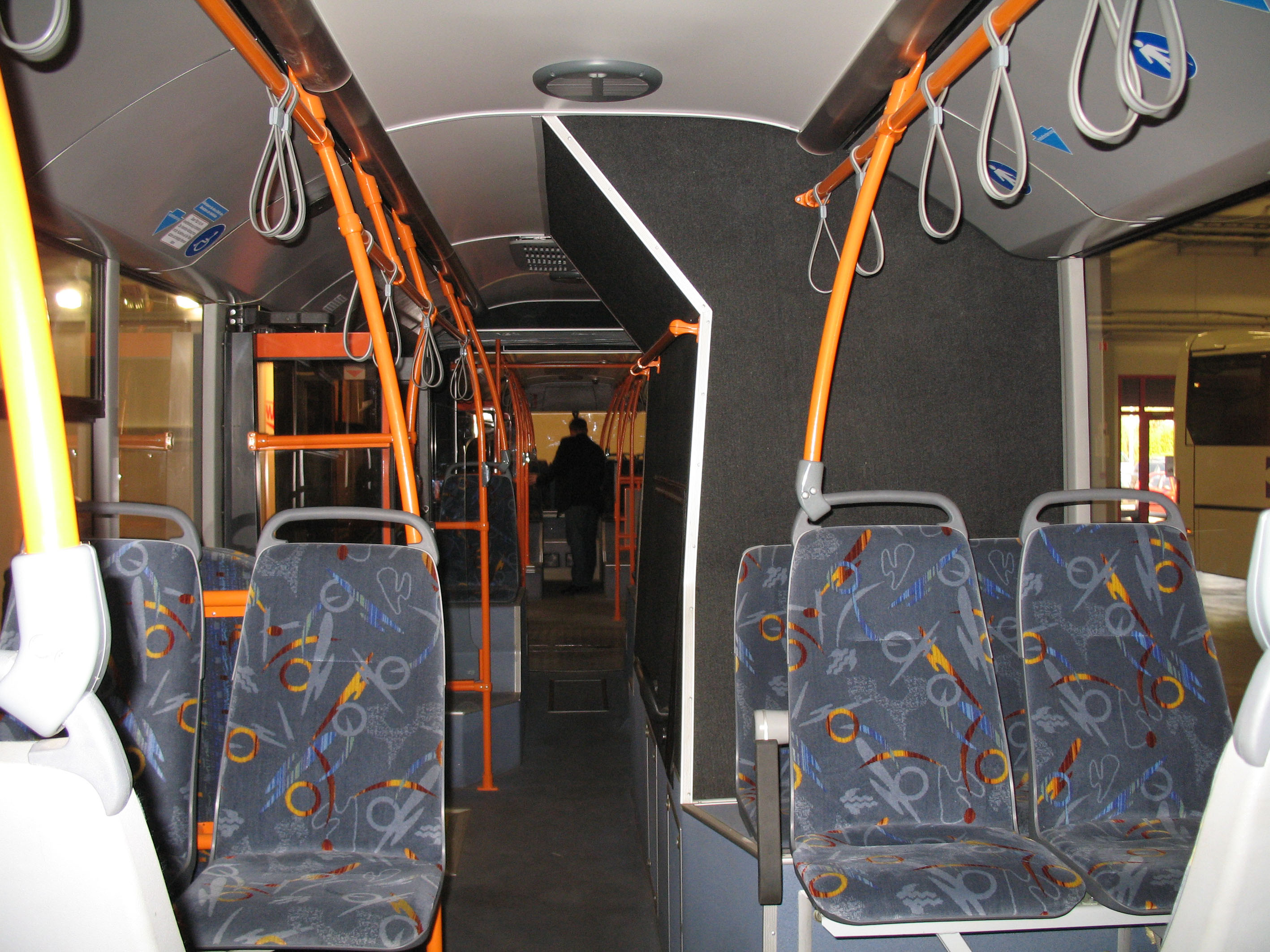 MAZ 205 (orginal МАЗ 205) city bus (reg. 7EKT2488) in Kielce, Poland. Built 2009, Transexpo 2010.